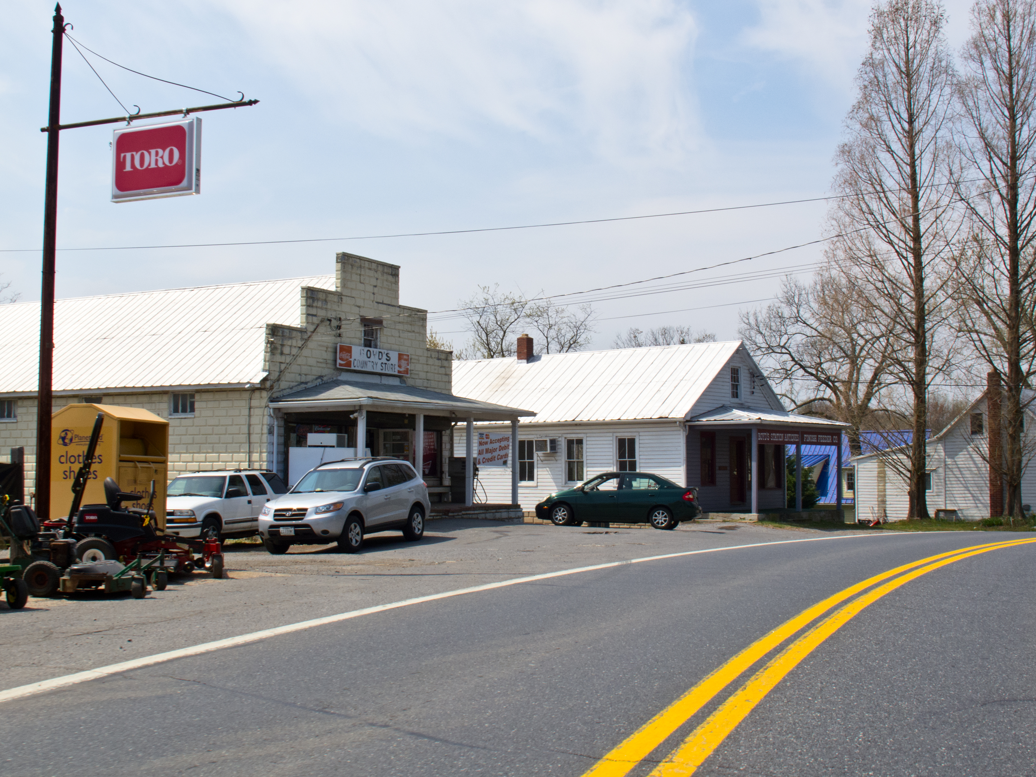 Photo of Boyds, Maryland with Boyd's Country Store.